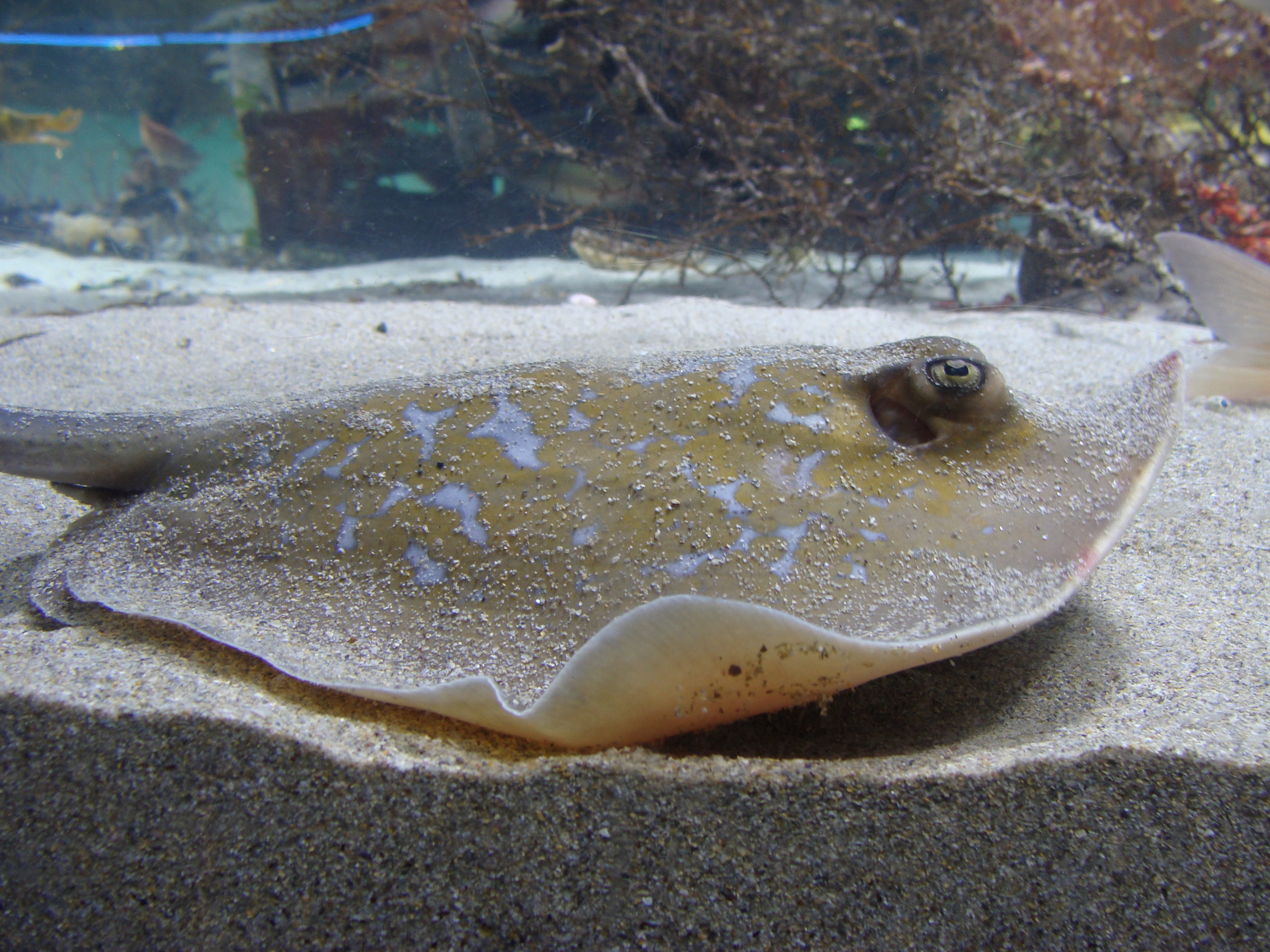 Marbled stingray (Dasyatis marmorata) in Sala Maremagnum of Aquarium Finisterrae (House of the Fishes), in Corunna, Galicia, Spain.